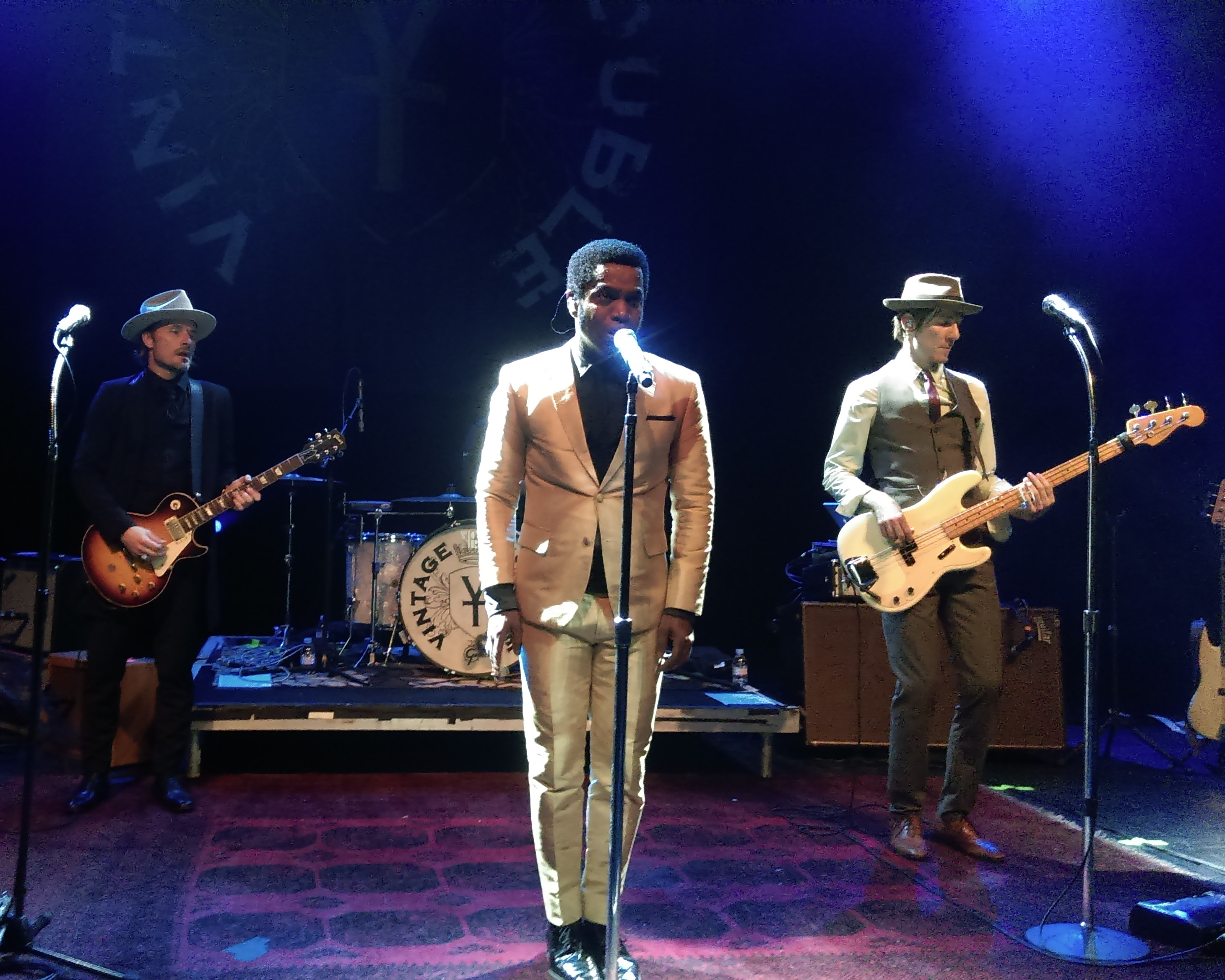 American band Vintage Trouble onstage in London, November 2015